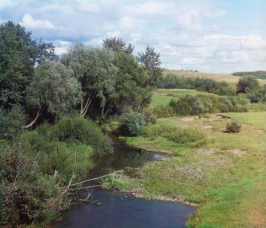 Koloch river from the bridge at the entrance of Borodino. Borodino, 1911, Prokudin-Gorskii.